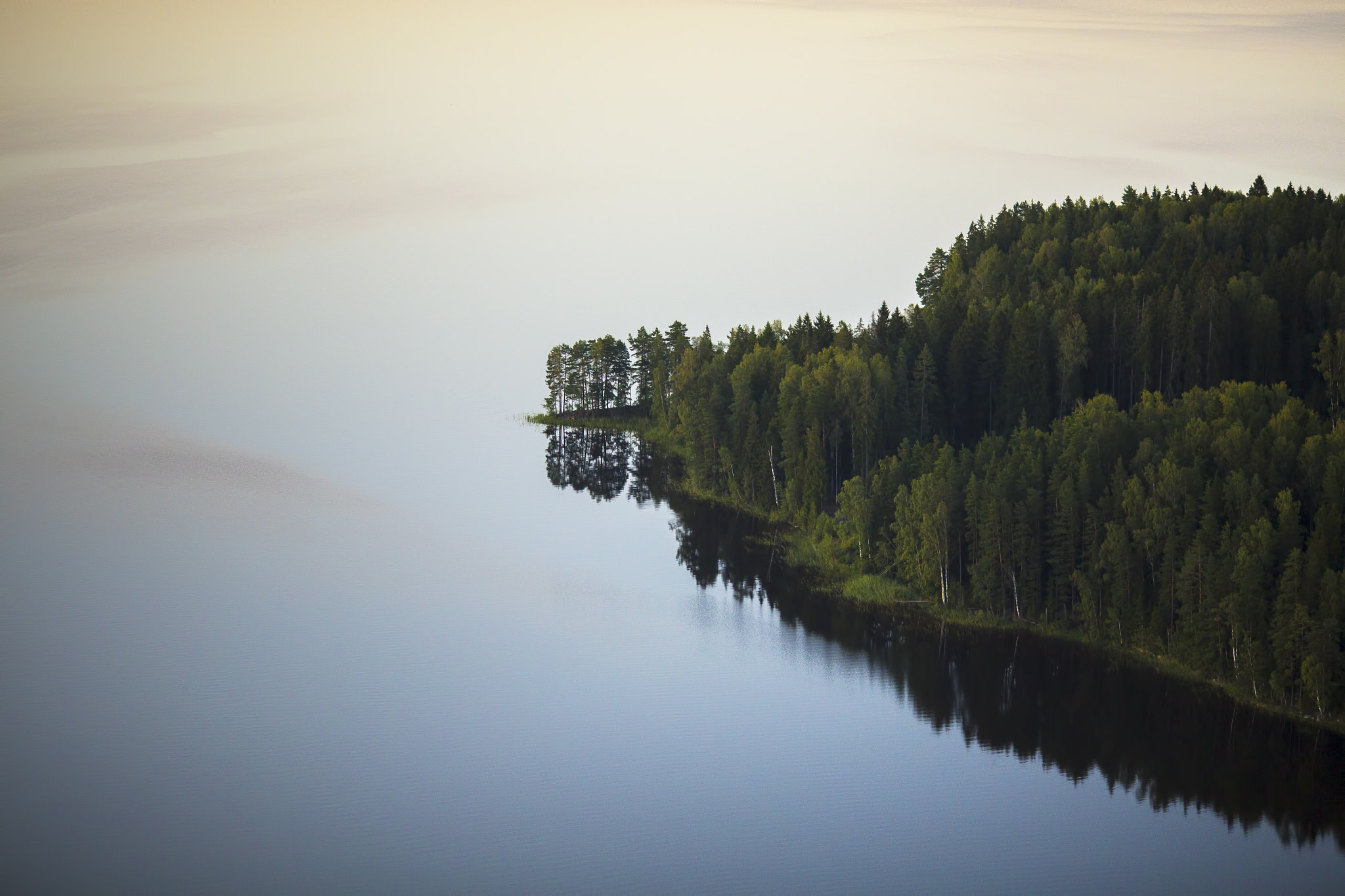 500px provided description: Shot from my paramotor a calm afternoon [#lake ,#forest ,#nature ,#tree ,#abstract ,#aerial ,#calm ,#fir ,#headland ,#colorshift]